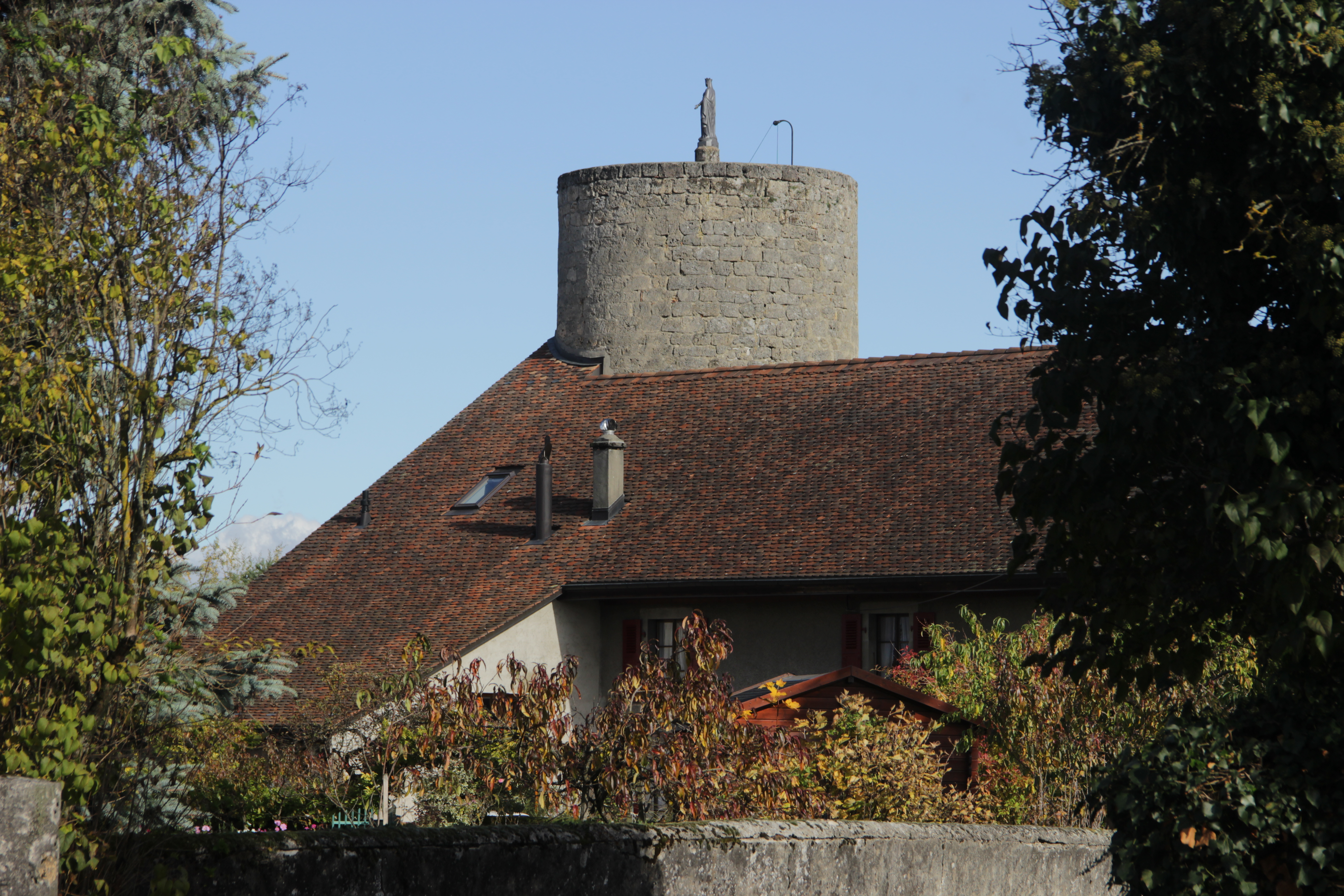 Tower of the ancient Château de Saconnex-d'Arve